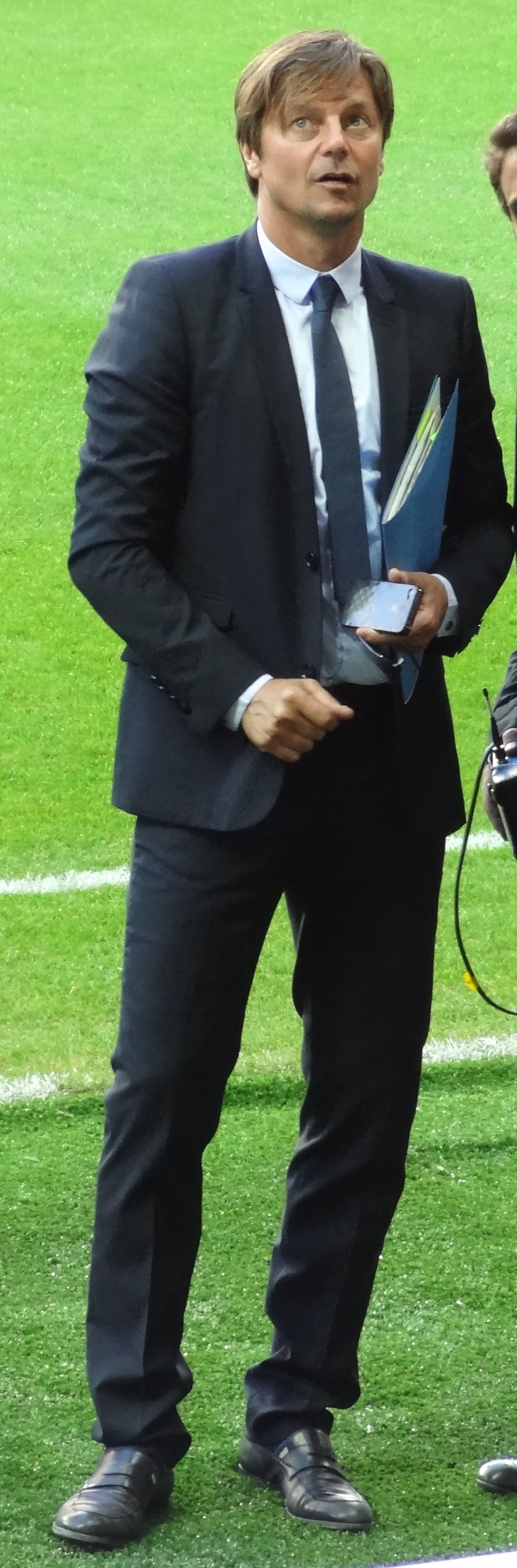 Daniel Bravo